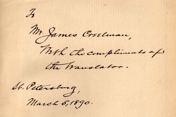 Scans of the 1888 translation of Kalevala into English. Front endpage inscription, from Volume 1 of Kalevala. Translated by John Martin Crawford, published 1888. Inscription reads: To Mr James Creelman, With the compliments of the translator. St. Petersburg, March 5, 1890